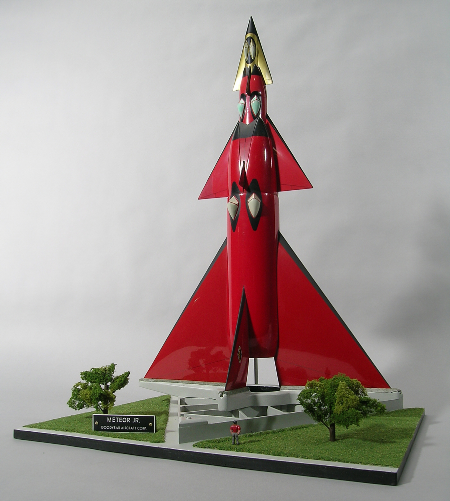 Model of the cancelled 1954 reusable spacecraft concept Goodyear Meteor Junior at the Smithsonian National Air and Space Museum.